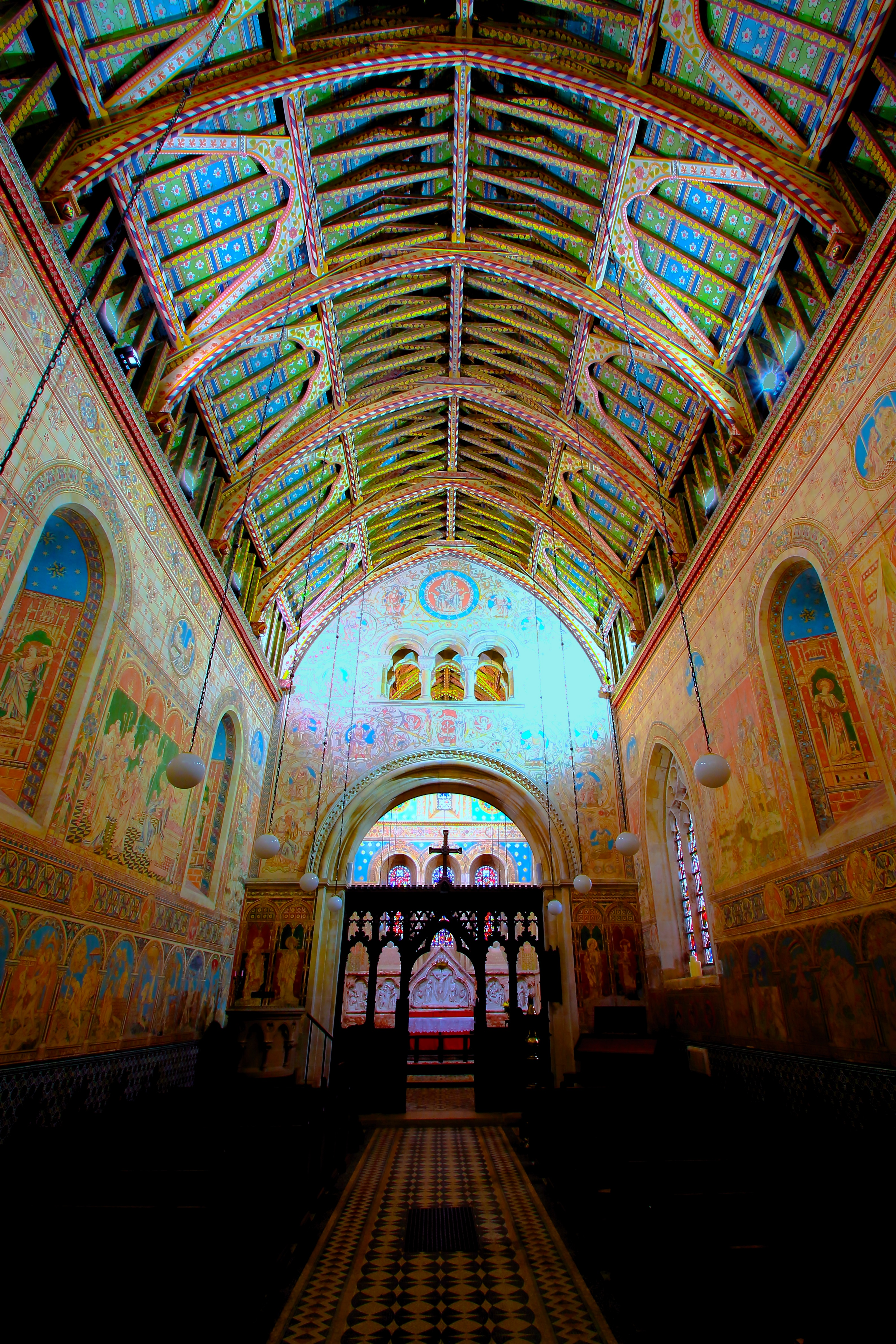 This is a wonderful surprise when you open the door